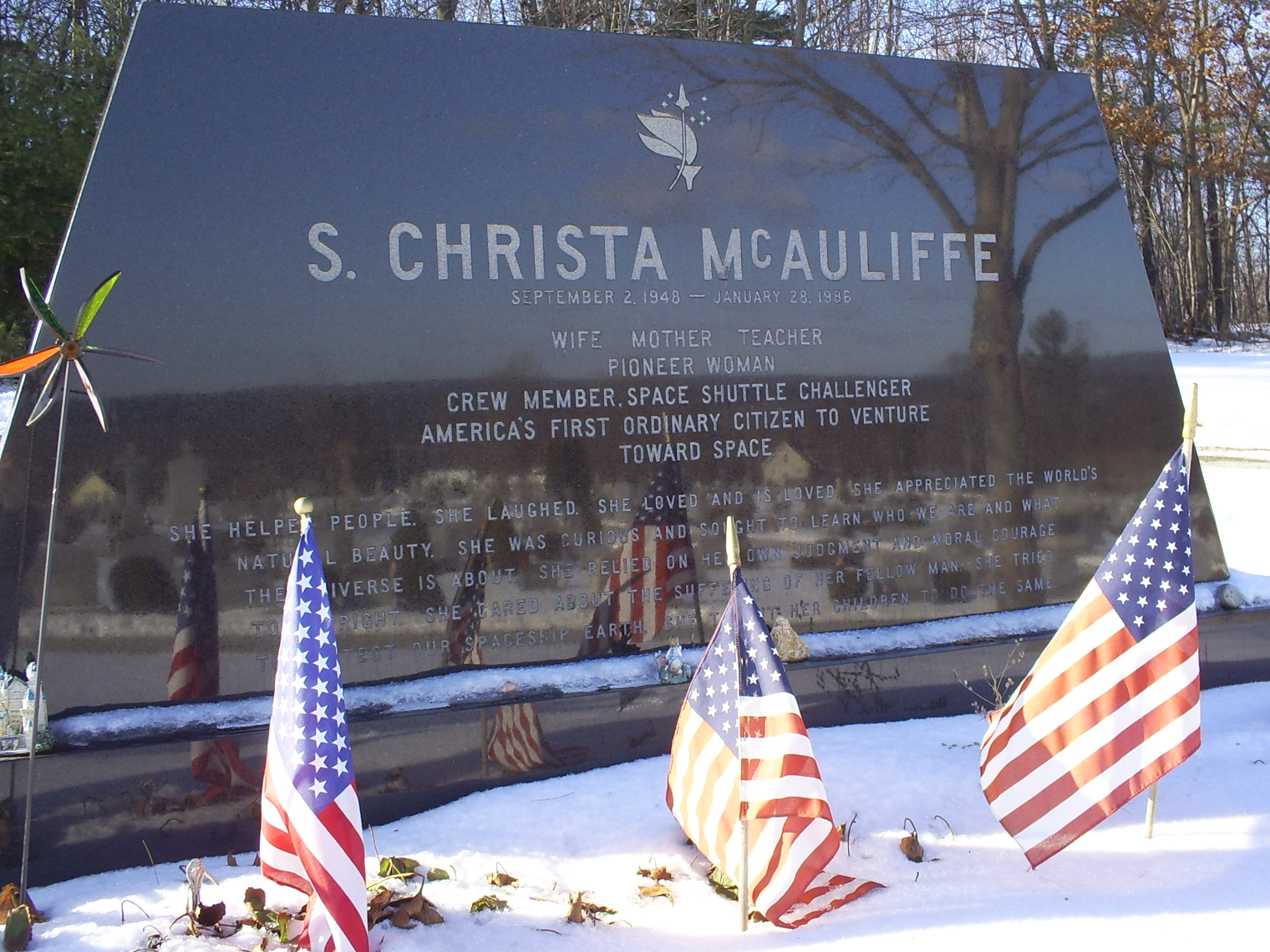 Christa McAuliffe Gravestone in Concord NH